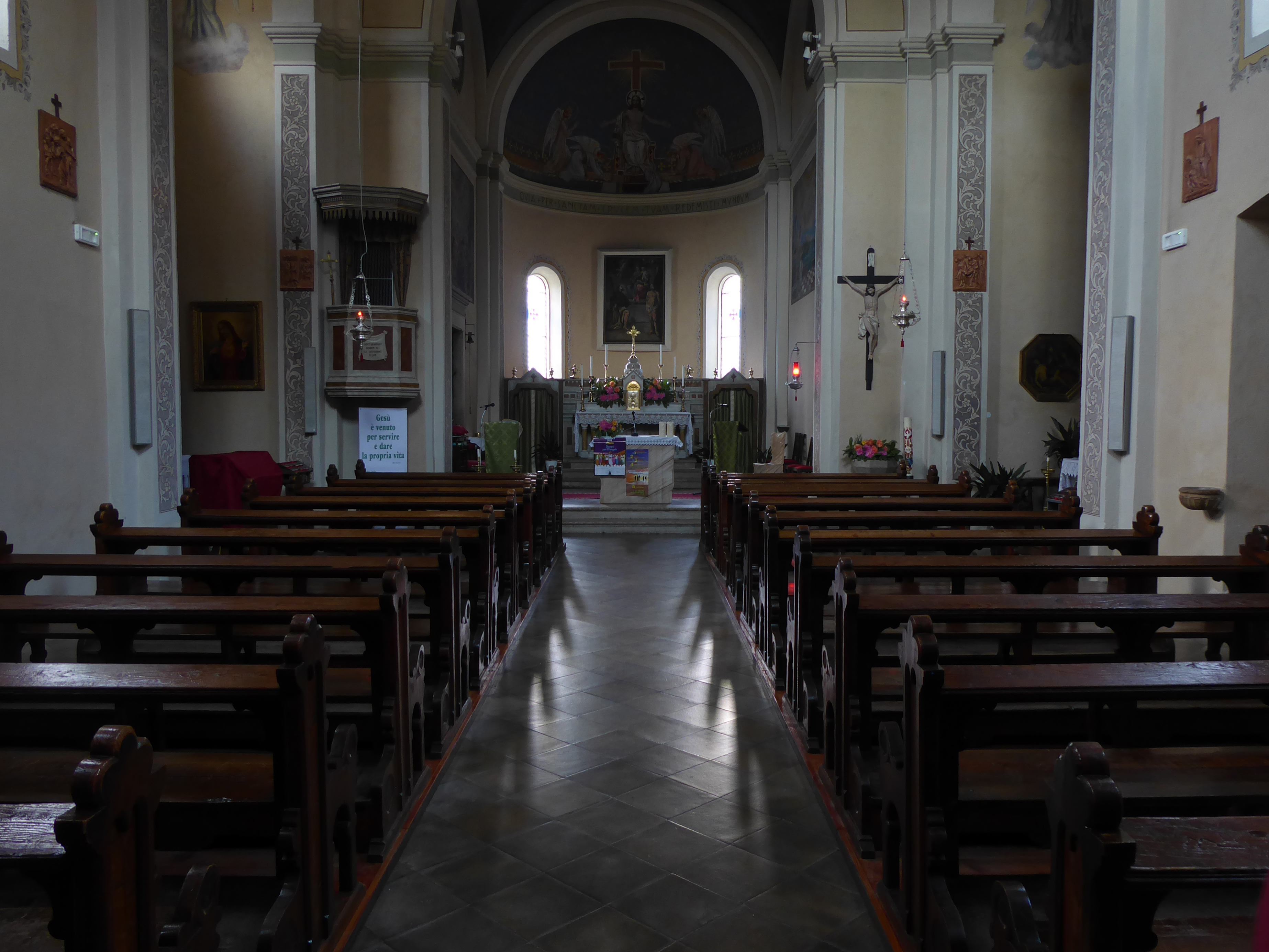 Ceola (Giovo, Trentino, Italy), Saint Roch church